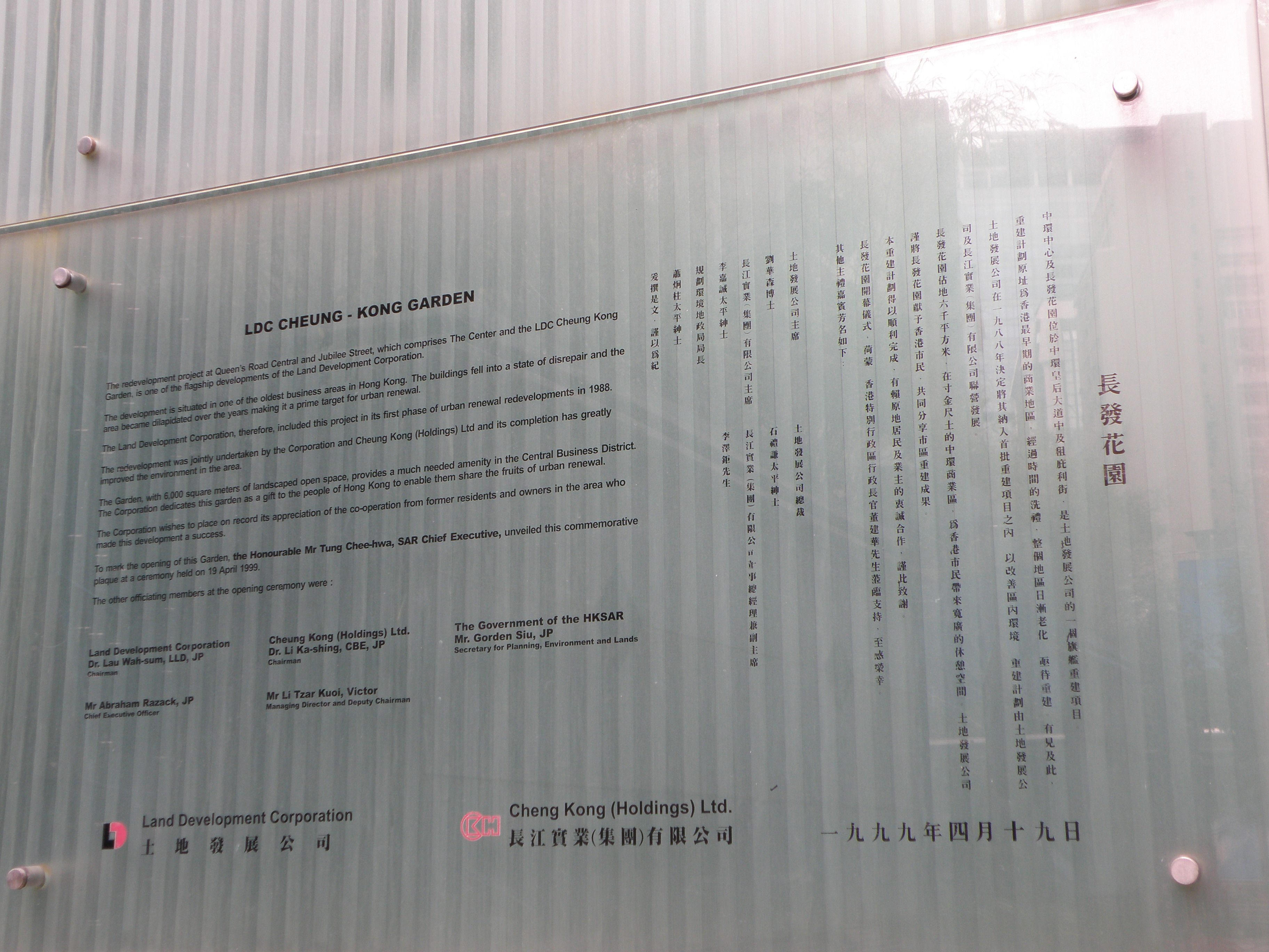 LDC Cheung Kong Garden in Central, Hong Kong.